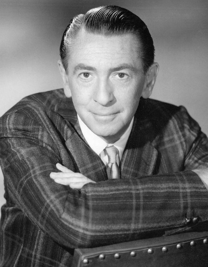 Publicity photo of Macdonald Carey from the television program Days of Our Lives.